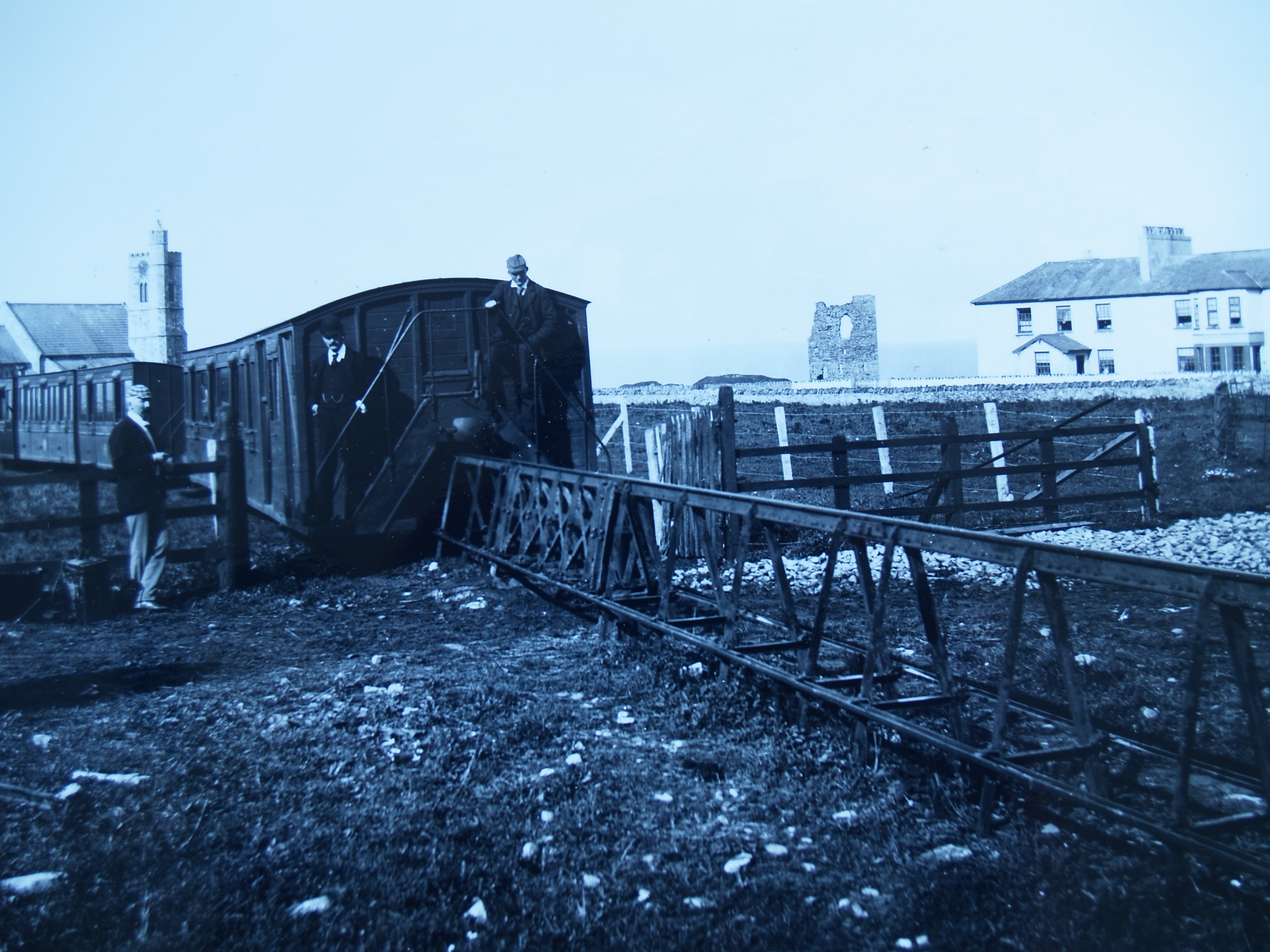 Old Irish locomotive photo